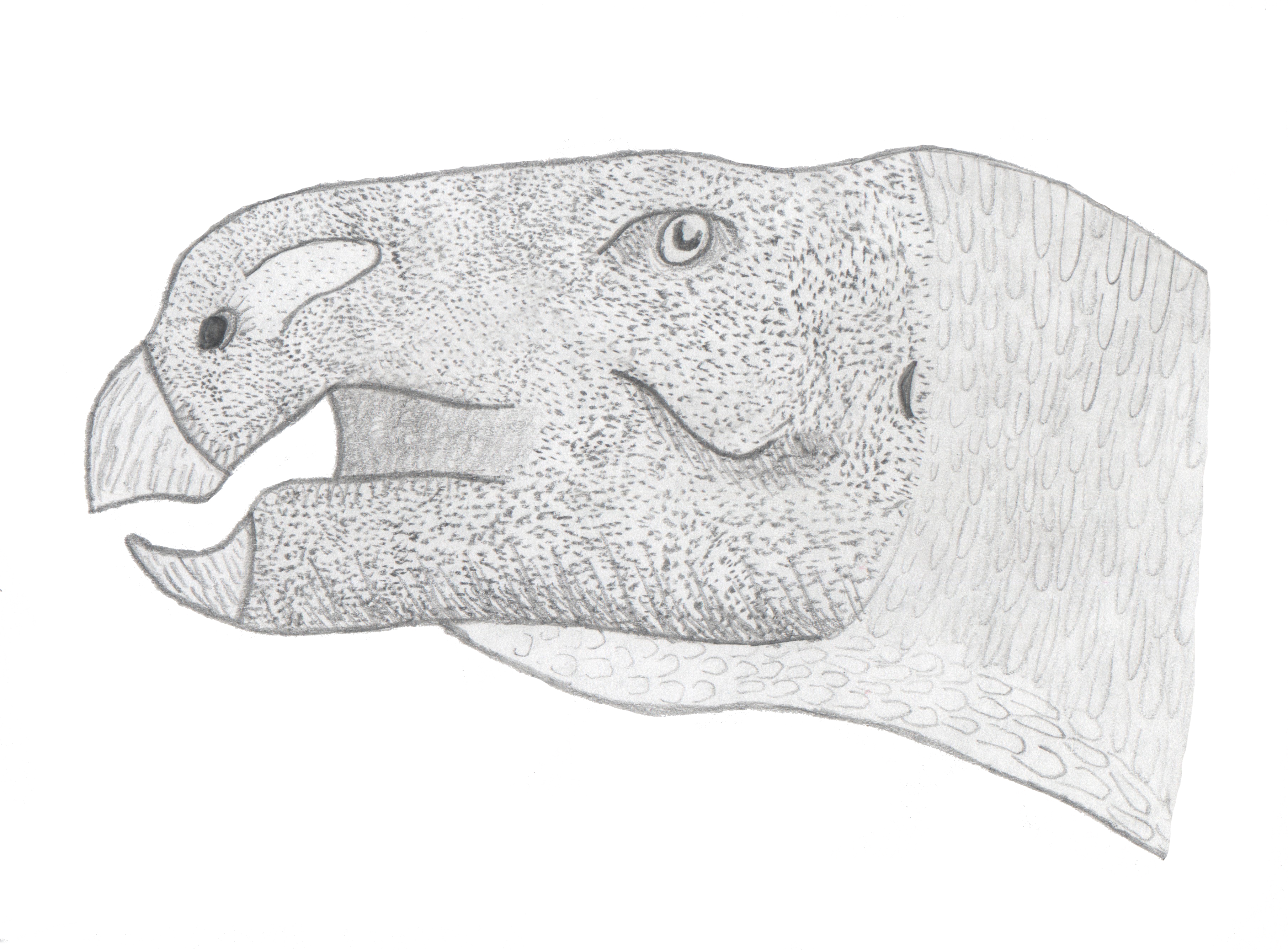 Illustration of the head of Acristavus gagslarsoni Gates et al. 2011.